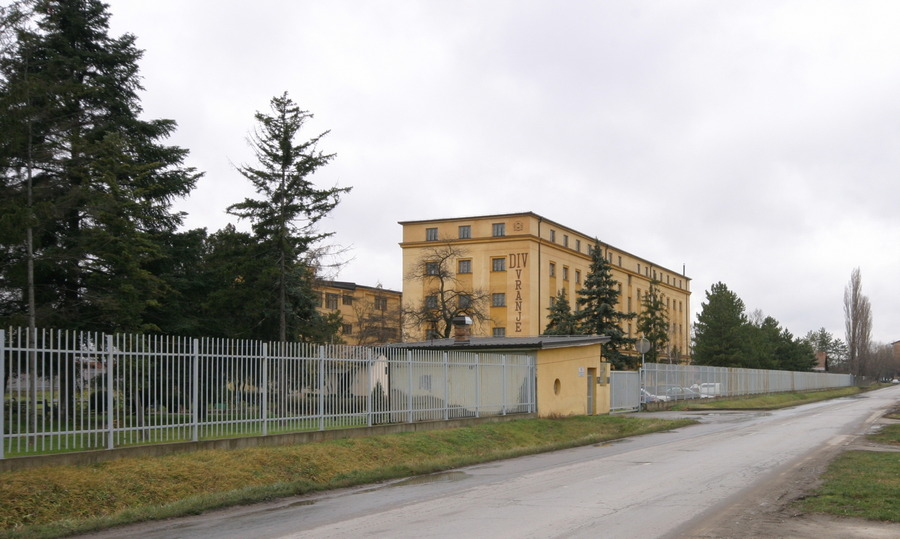 Factory Monopol Zrenjanin Srpski (latinica): Fabrika Monopol Zrenjanin